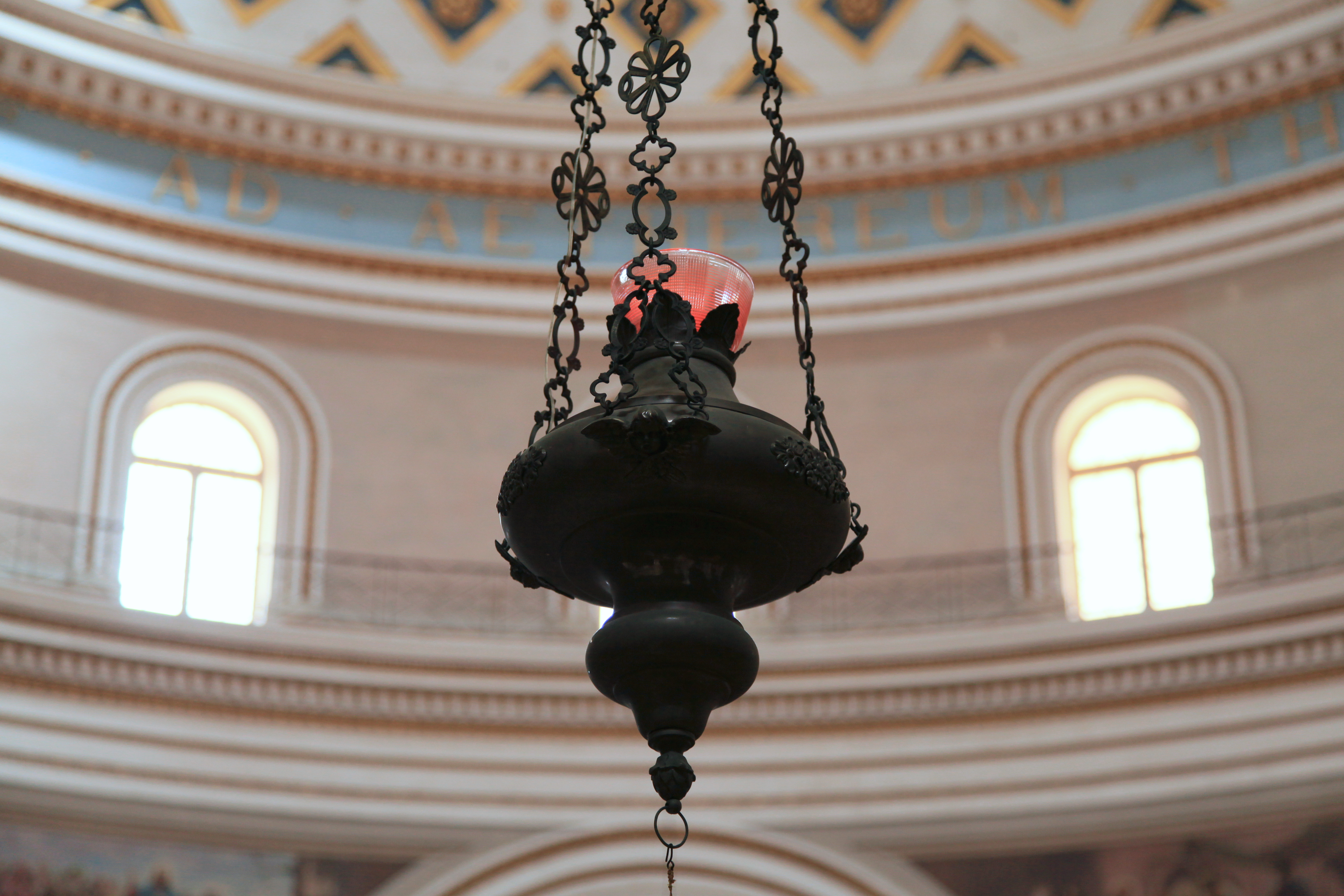 Interior of the Rotunda of St. Marija Assunta in Mosta, Malta